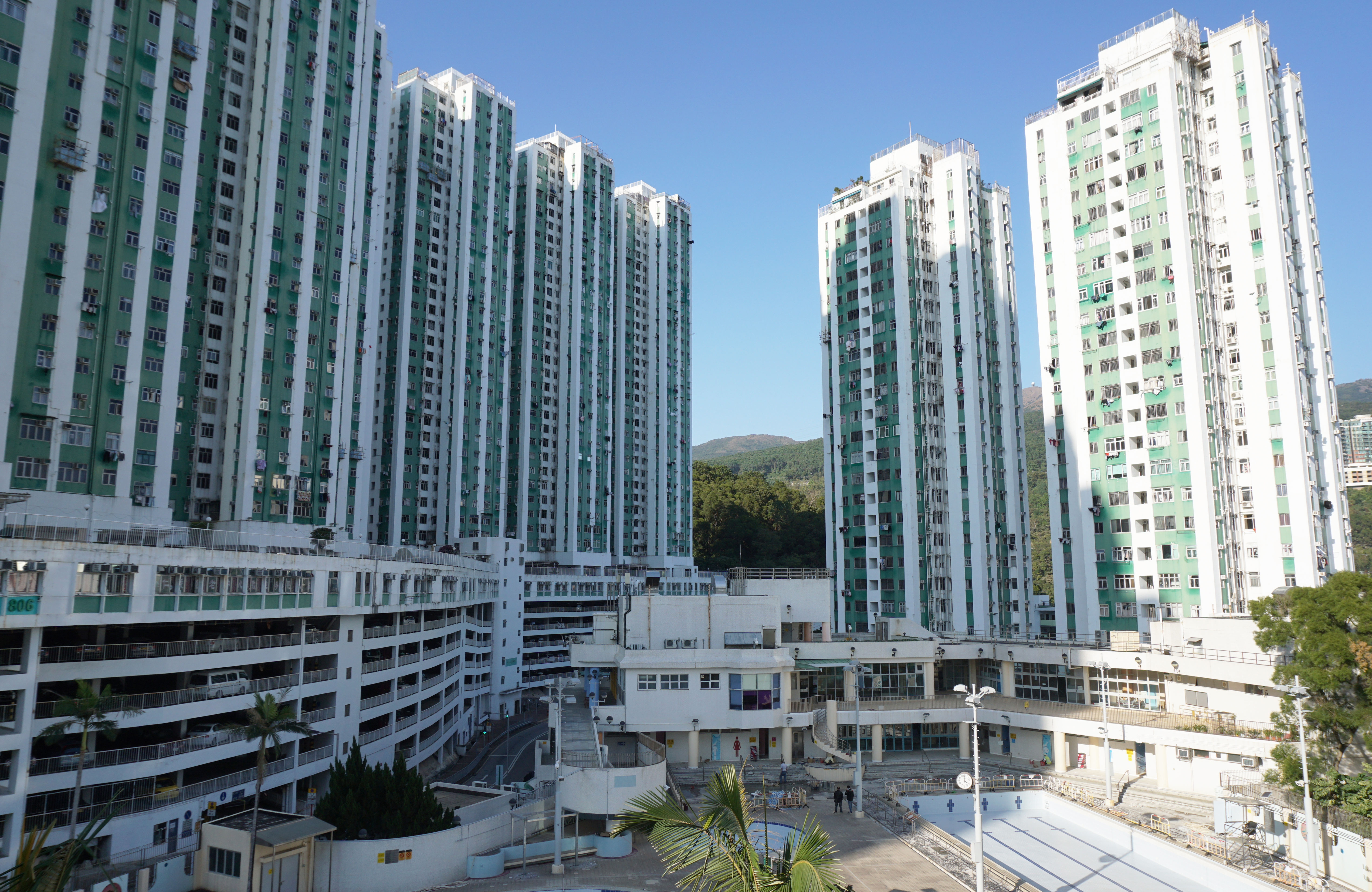 Allway Gardens in Tsuen Wan, Hong Kong.